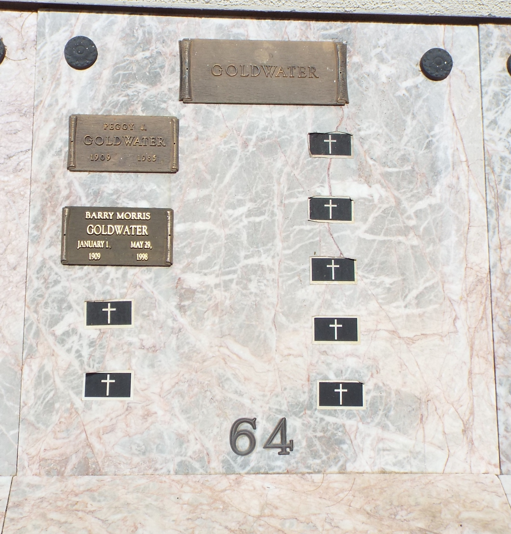 This is the Goldwater Crypt in the Memorial Garden in the grounds of the Christ Church of the Ascension. In 1964, Arizona Senator Barry Goldwater ran unsuccessfully for the Presidency of the United States. His ashes and that of his wife, Peggy, who died in 1985, are interned in the crypt. The church is located in Paradise Valley, Arizona at 4015 E. Lincoln Drive.